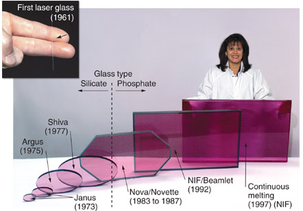 History of neodymium laser glass development at LLNL